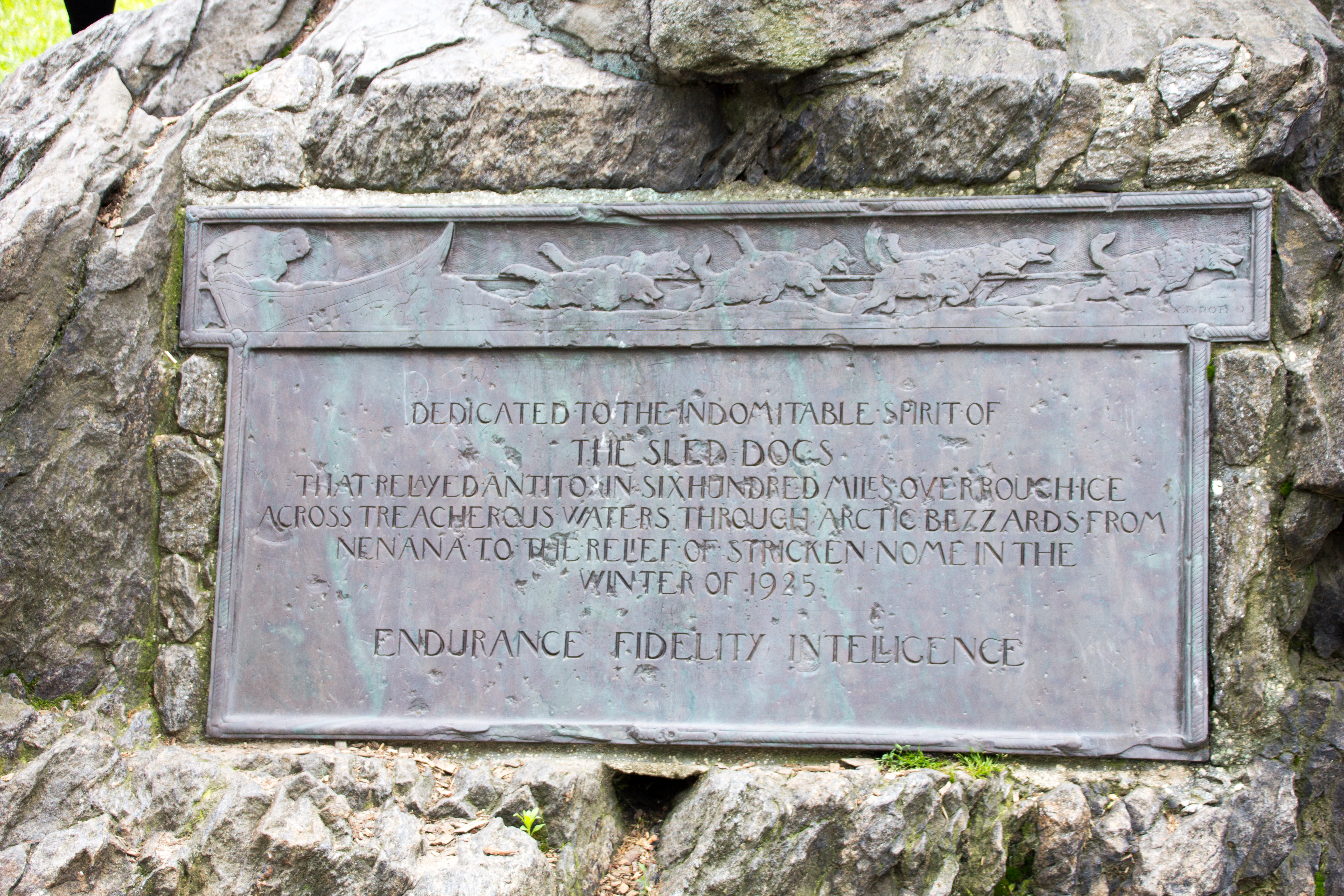 Manhatten, New York City "Dedicated to the indomitable spirit of the sled dogs"